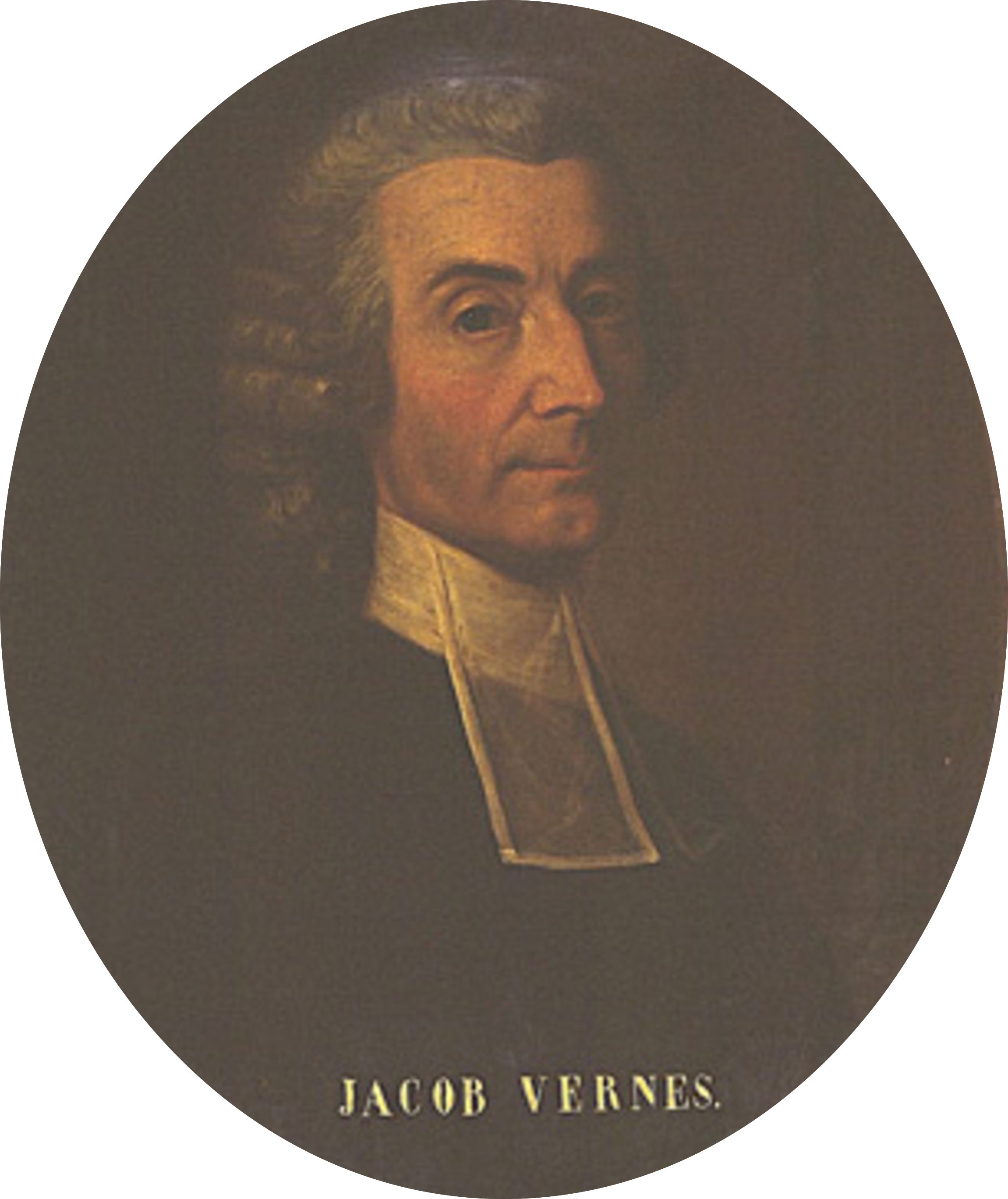 Portrait de Jacob Vernes (1728-1790)